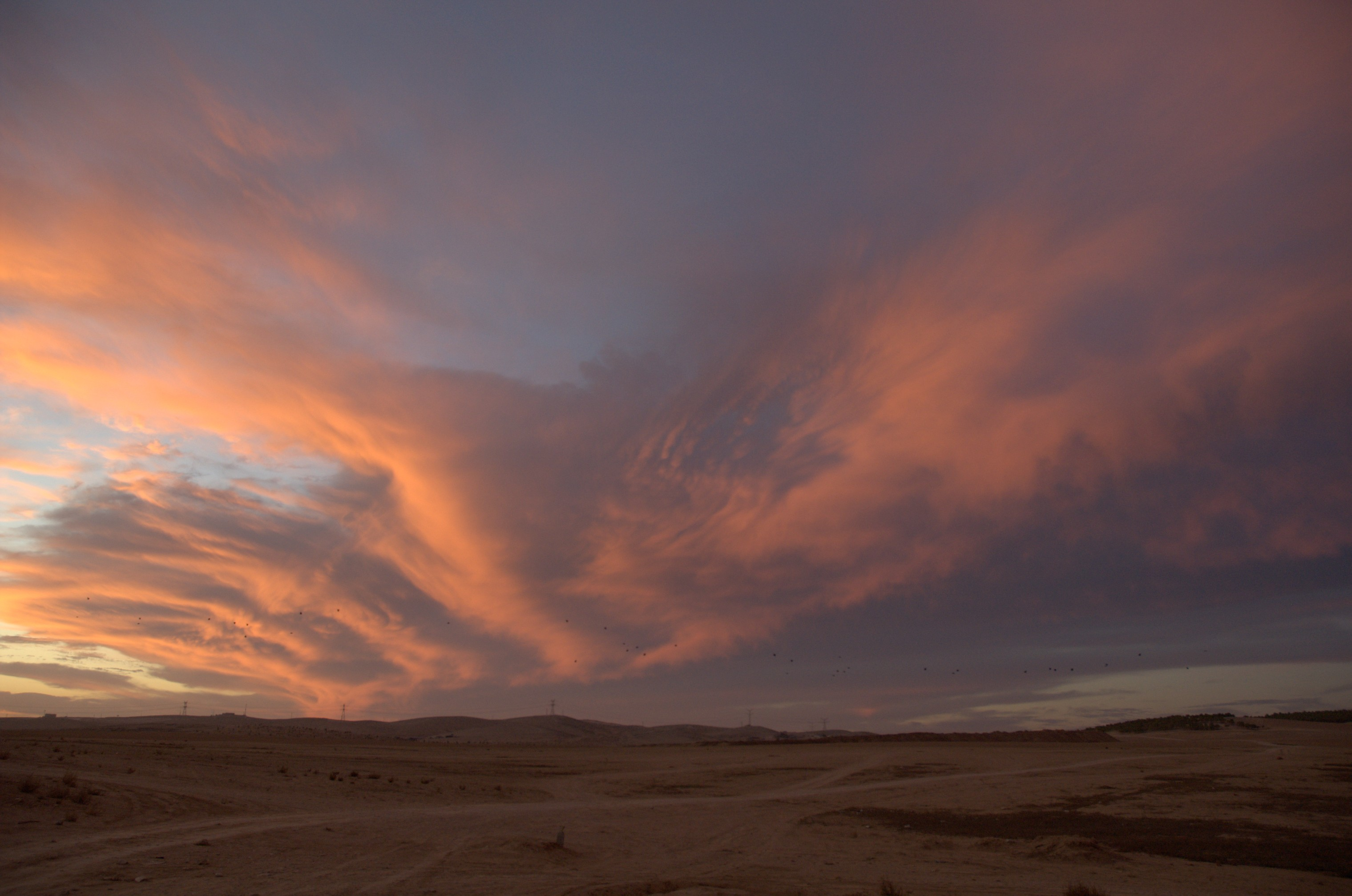 Sunset in Negev, Israel